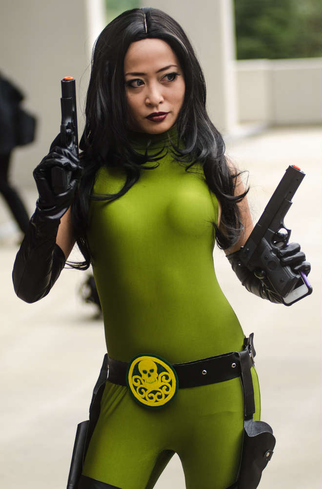 DragonCon 2012 - Marvel and Avengers photoshoot